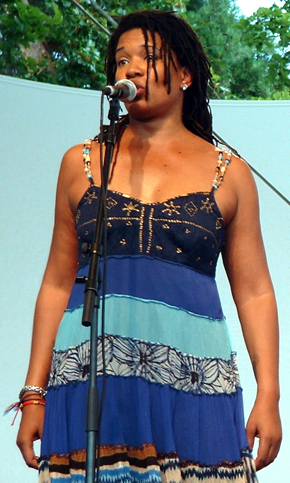 Demi Evans Concert of Jean-Jacques Milteau[1], a great French bluesman, "King of Harmonica", at the Paris Jazz Festival 2006, Parc Floral de Paris, July 8, 2006. JJM's band: Jean-Jacques Milteau, harmonica, vocals Demi Evans, vocals Manu Galvin, acoustic guitar, vocals Gilles Michel, acoustic bass guitar, vocals Eric Laffont, drums, vocals Guest musicians: Zephyrologie brass band[2] Patrick Verbeke Quintet[3]